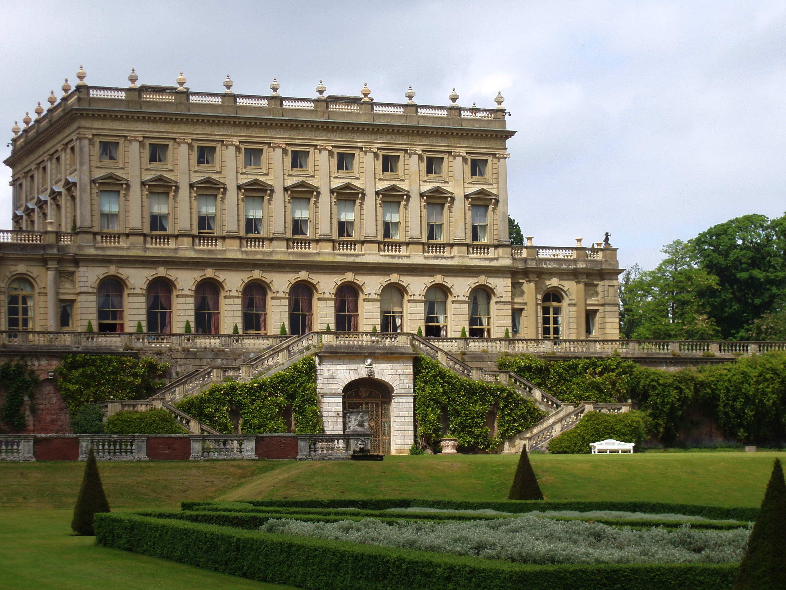 Cliveden, Taplow, Buckinghamshire, England. View of the house from its lawn.